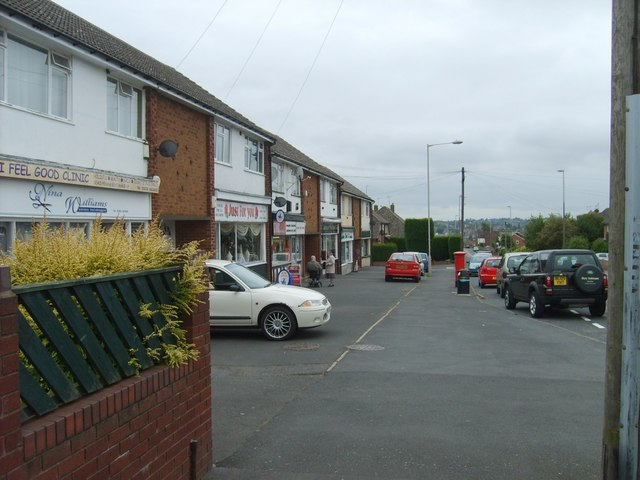 The Straits Post Office and Shops The Straits Estate near Sedgley.